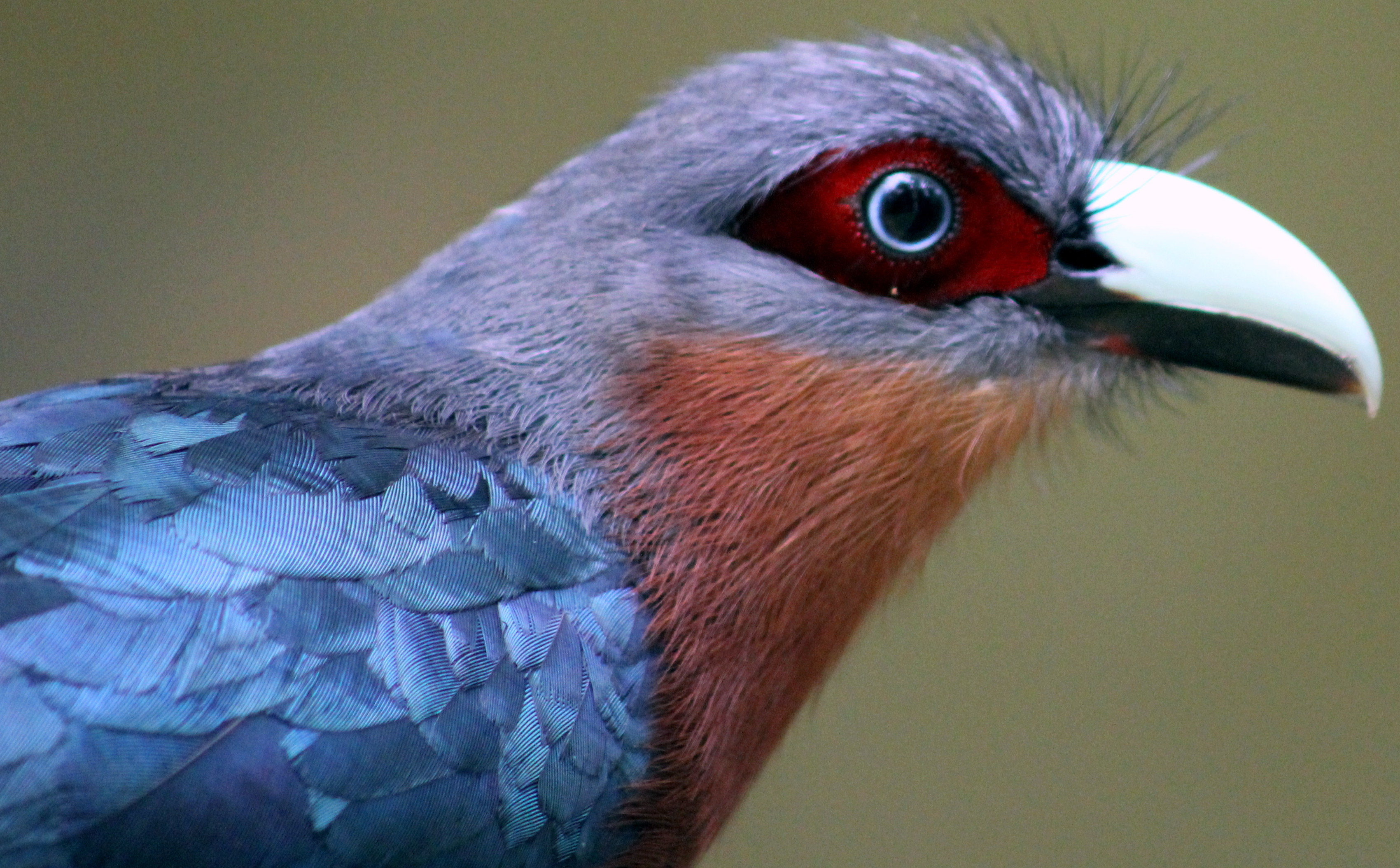 CHESTNUT-BREASTED MALKOHA